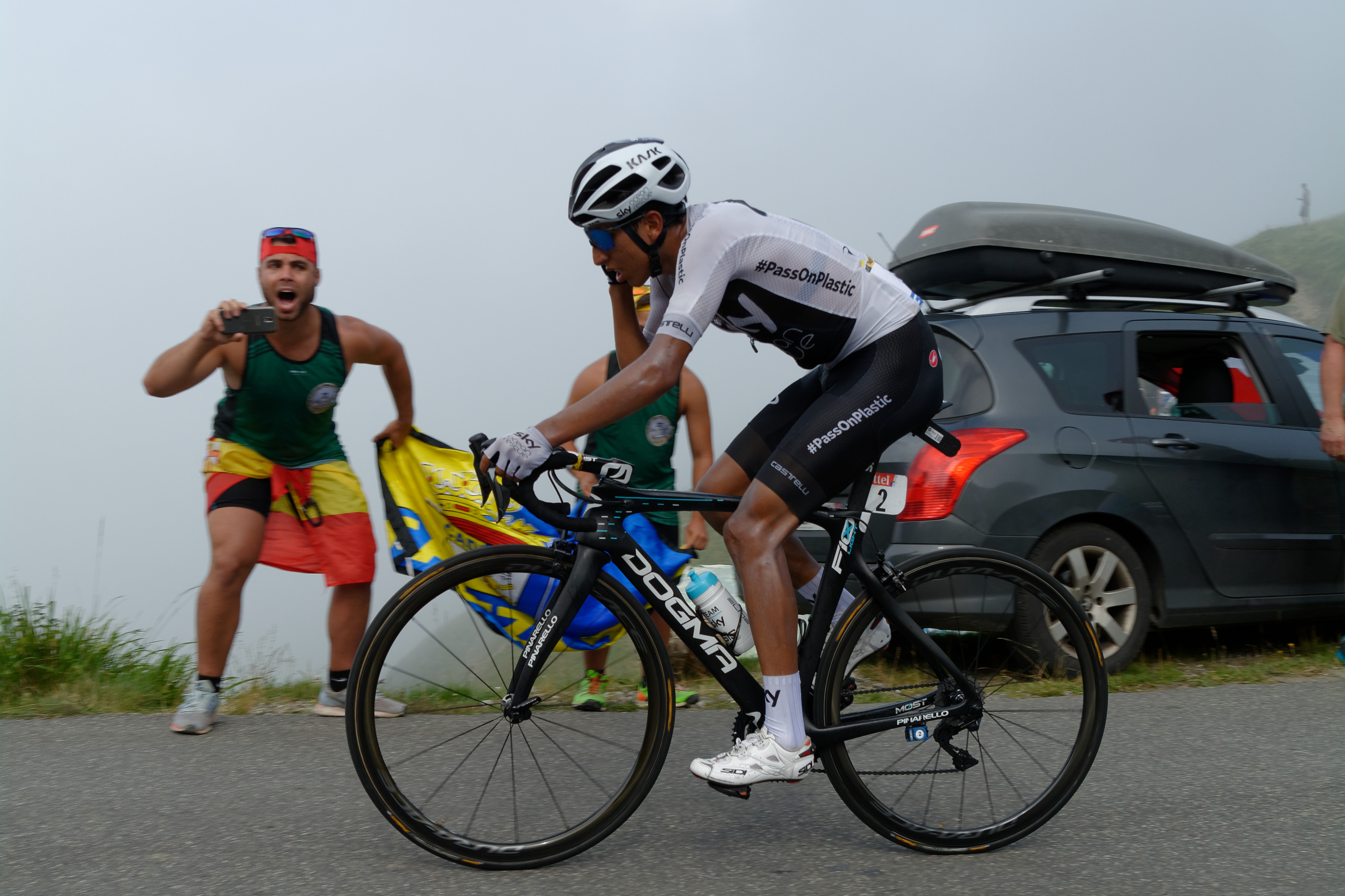 2018 Tour de France